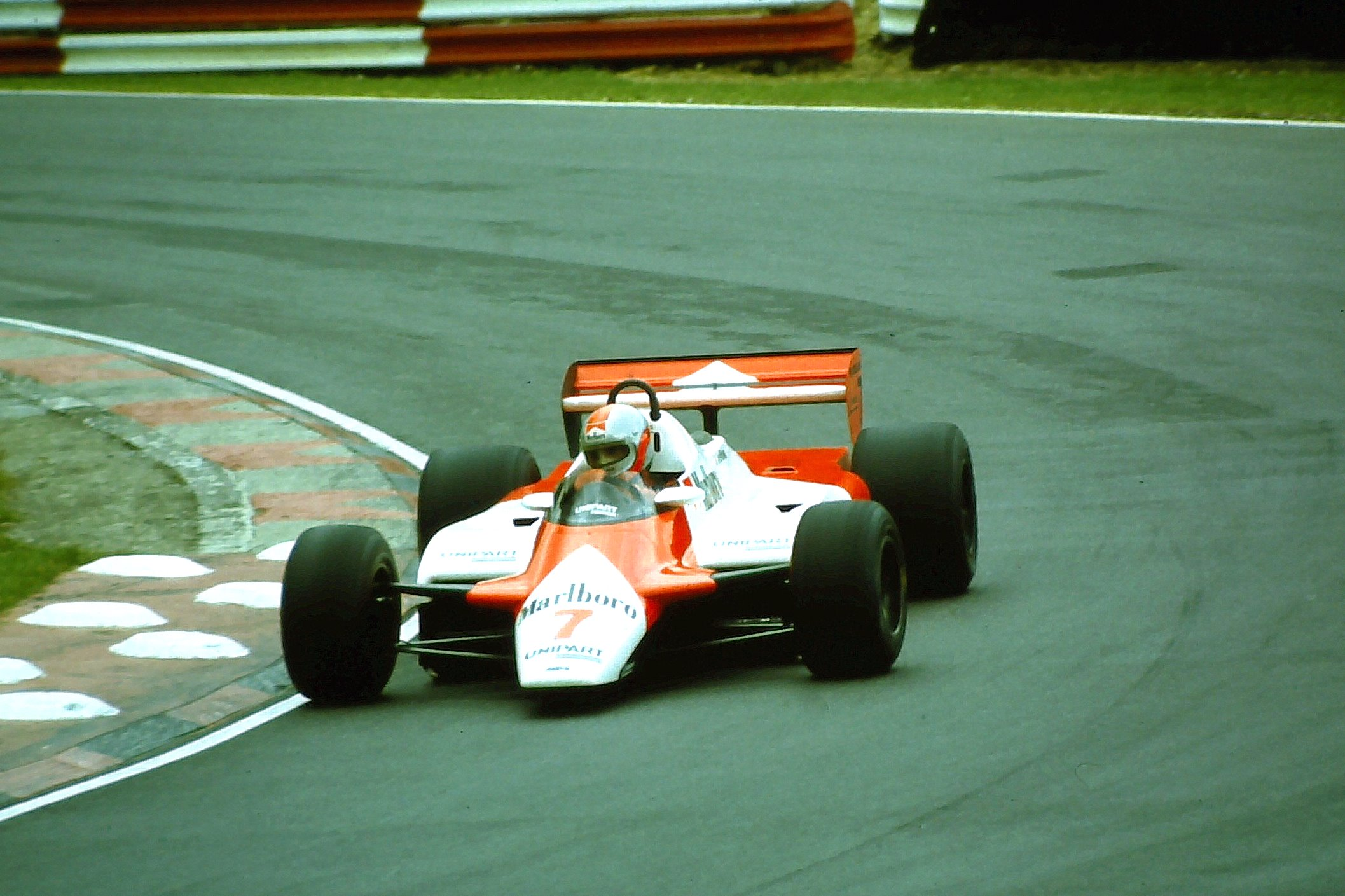 John Watson at the 1982 British Grand Prix